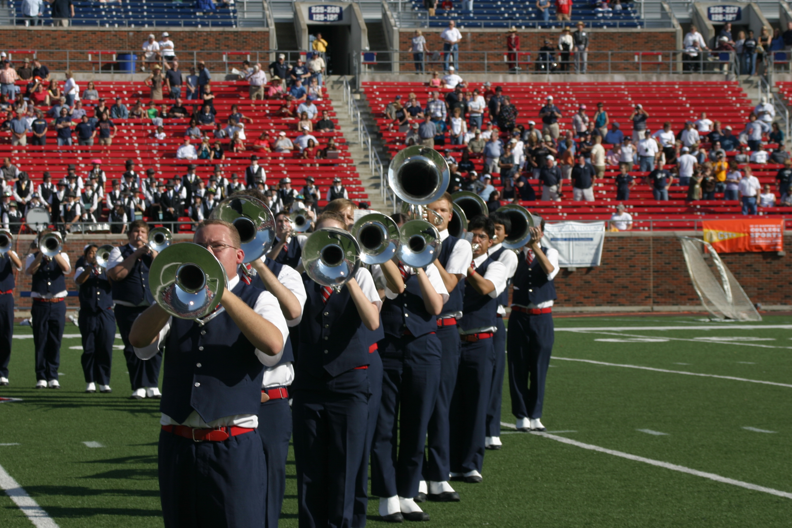 Diamond M formation during Homecoming 2005